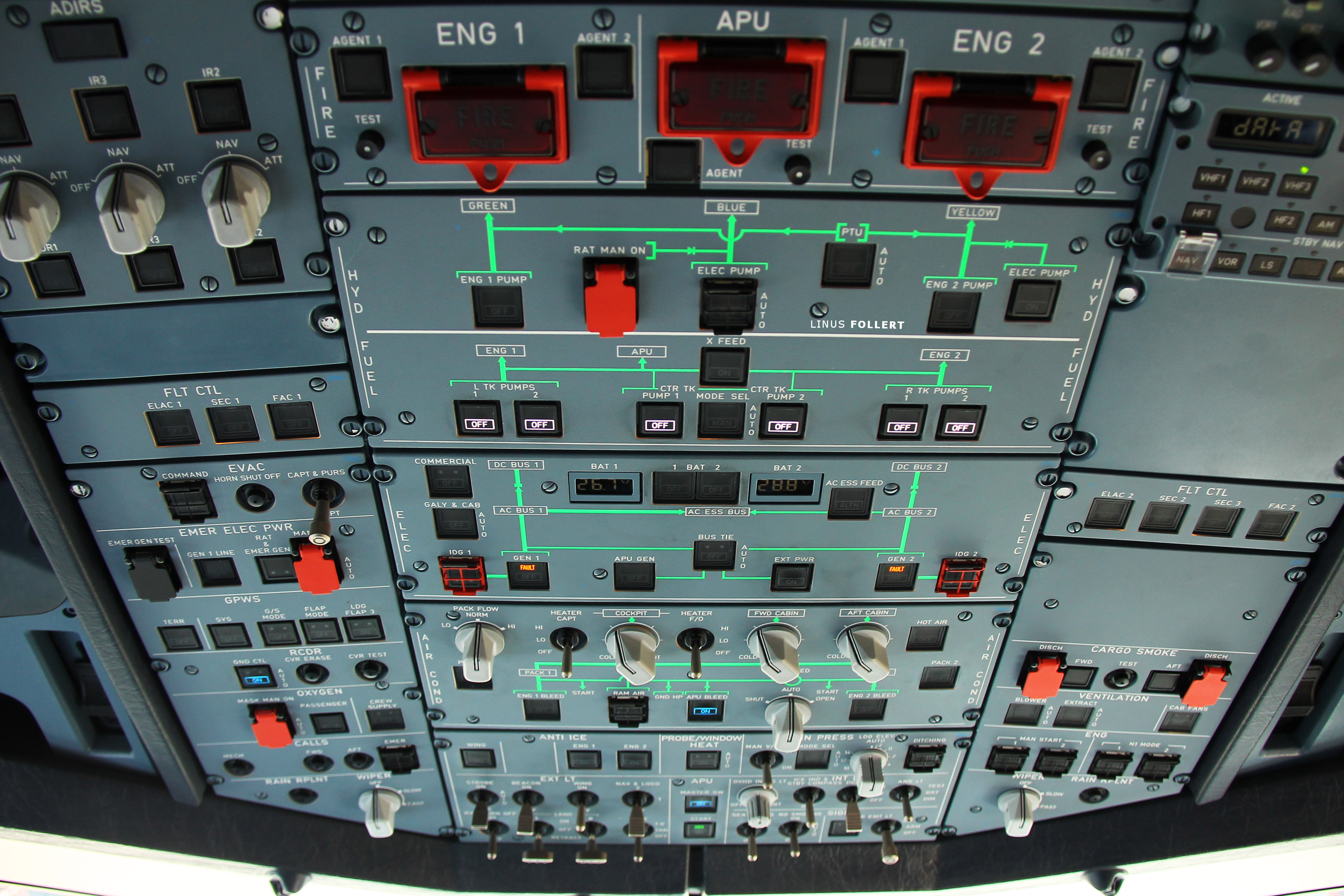 Very Nice Flight Crew on the Germanwings Flight to LHR